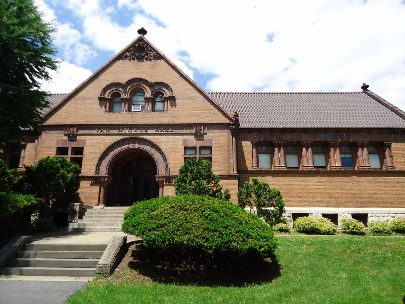 A photo from a campus tour of Lafayette College in Easton, Pennsylvania. Lafayette is a liberal arts college on a hill near the Delaware River.